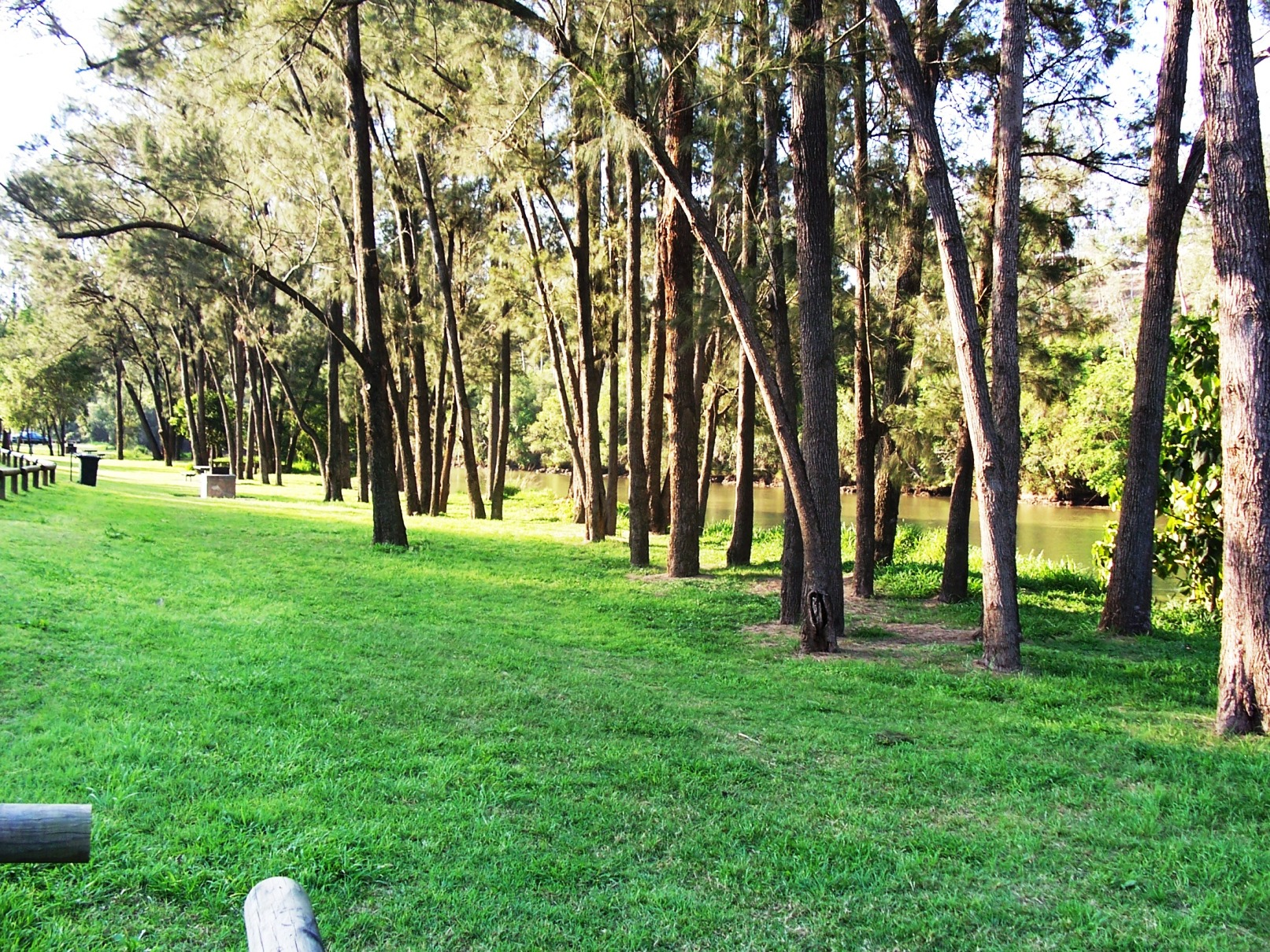 View of Brisbane River, from Kookaburra Park, Karana Downs. Picture taken by myself, Thomas Beilby, on 7th October 2006.